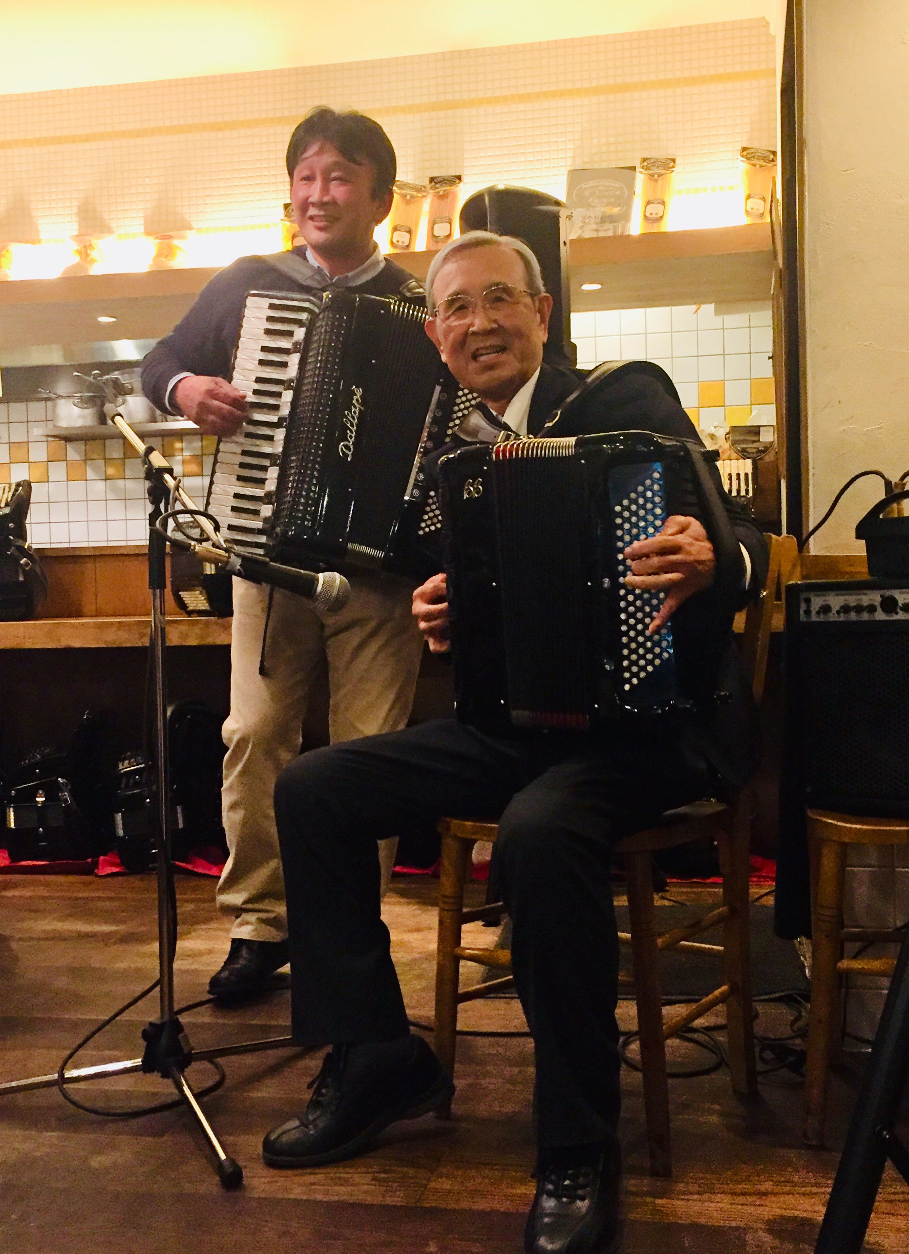 An ageless accordionist Mr.MANO Yasuharu, who is also called "the evangelist of harmonicas", and his son Mr.MANO Teruhisa. They are the chairperson and the CEO of Tombo Musical Inst Co., Ltd. respectively. They played the accordions at the year‐end dinner party held by JAPC (Japan Accordion Promotion Conference) at the Italian restaurant Bistecca Akasaka on 8th Dec. 2018.